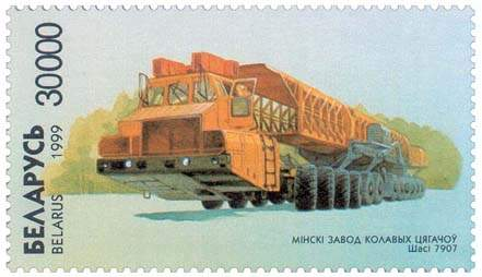 Stamp of Belarus, depicting a MAZ-7907 24-wheel truck